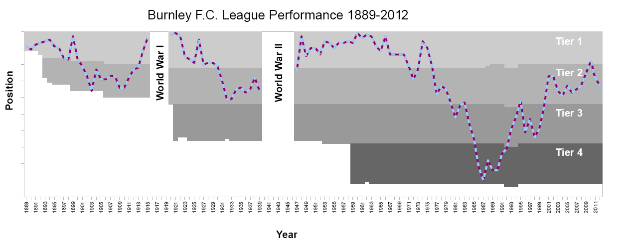 Graph showing Burnley F.C.'s performance from the first season of the English Football League in 1888-1889 to 2011-2012 when they finished thirteenth in the Championship.